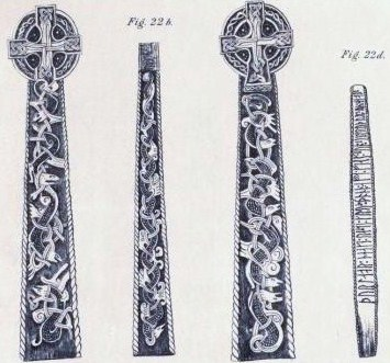 image